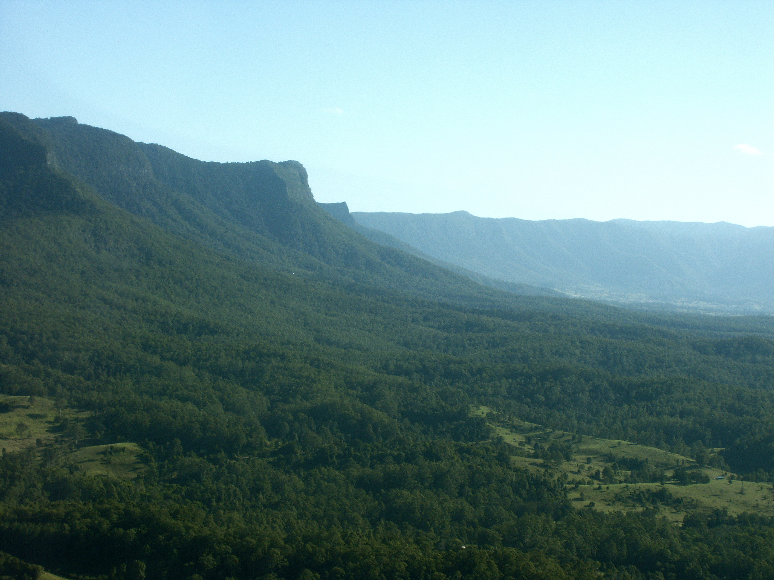 Upper Tweed Valley, New South Wales, Australia. Taken from a light aircraft at about 500 feet by Alex Clarke. Looking towards the north, you can clearly see the 1000m wall of the Tweed caldera, and the Pinnacle.